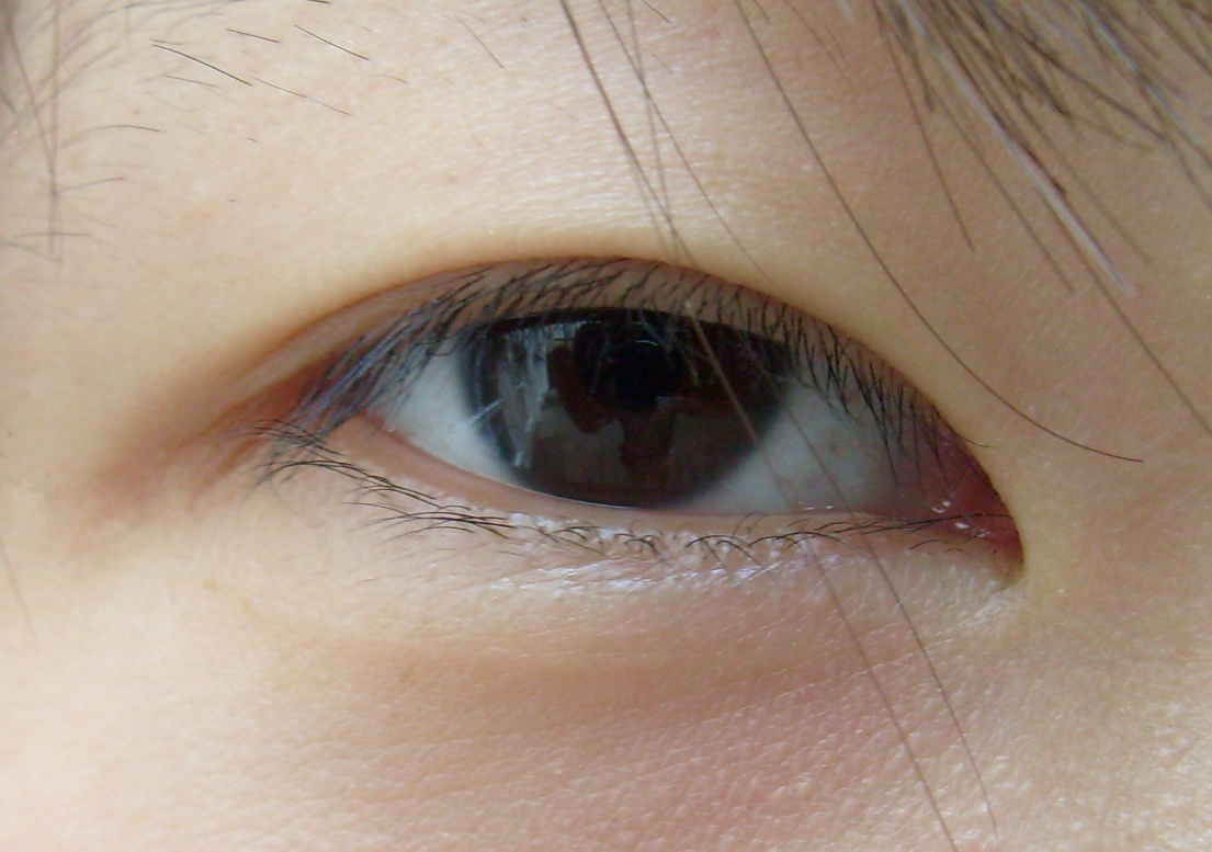 The left eye of a young South Korean girl. A typical epicanthic fold is present on the right of the eye.